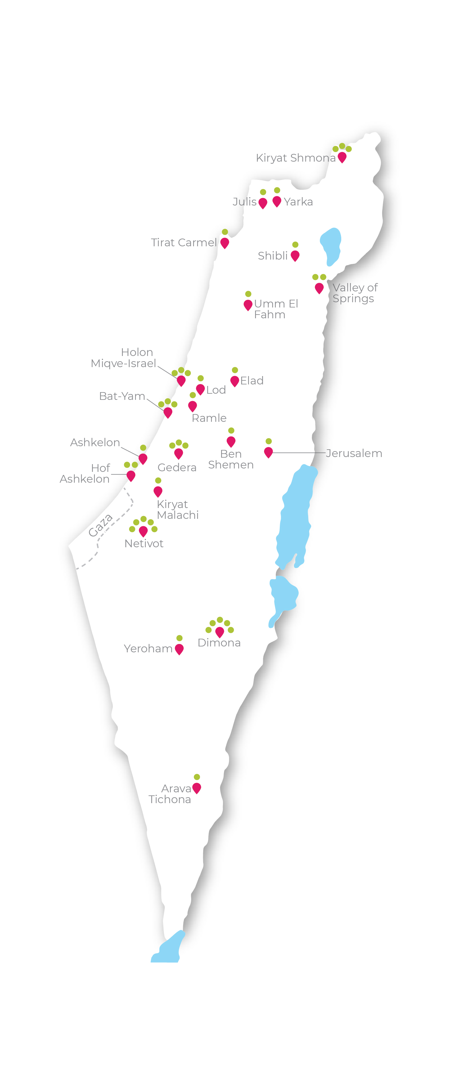 Darca School Map